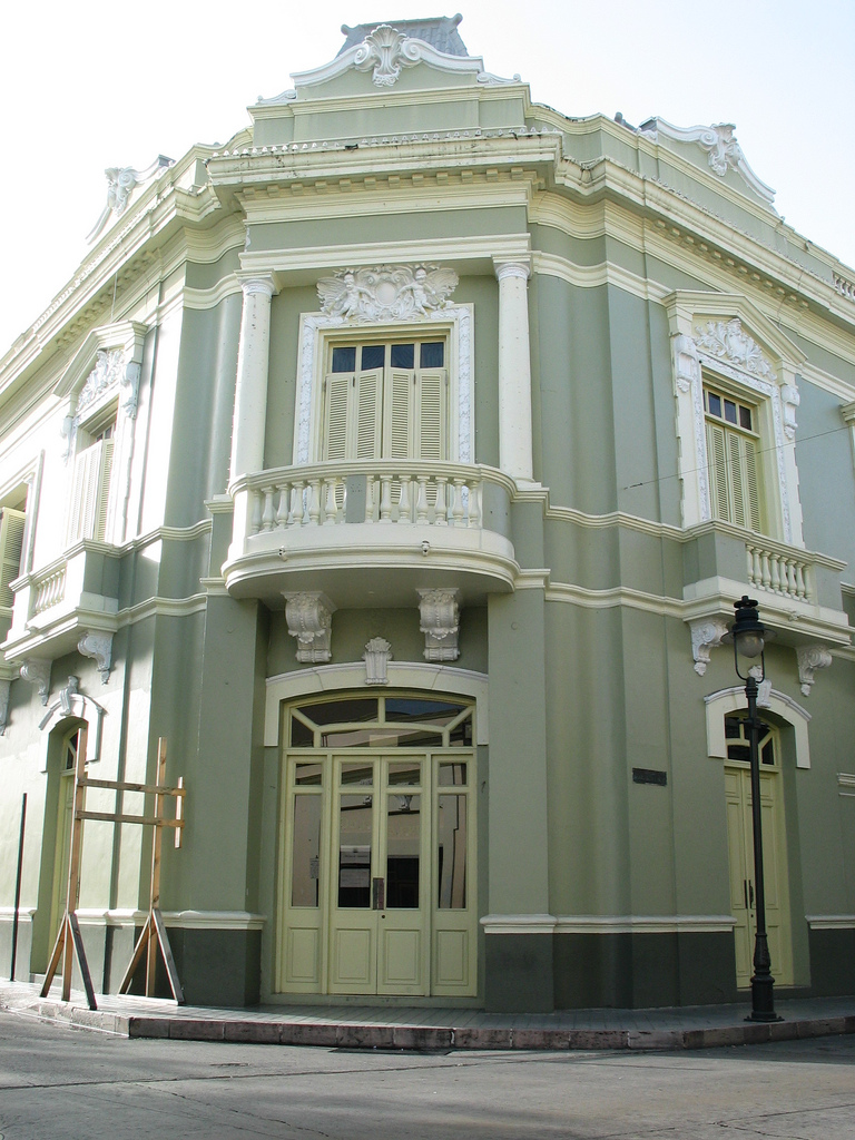 Antiguo Casino de Ponce (Old Ponce Casino) — within the Ponce Historic Zone, in Ponce, Puerto Rico.